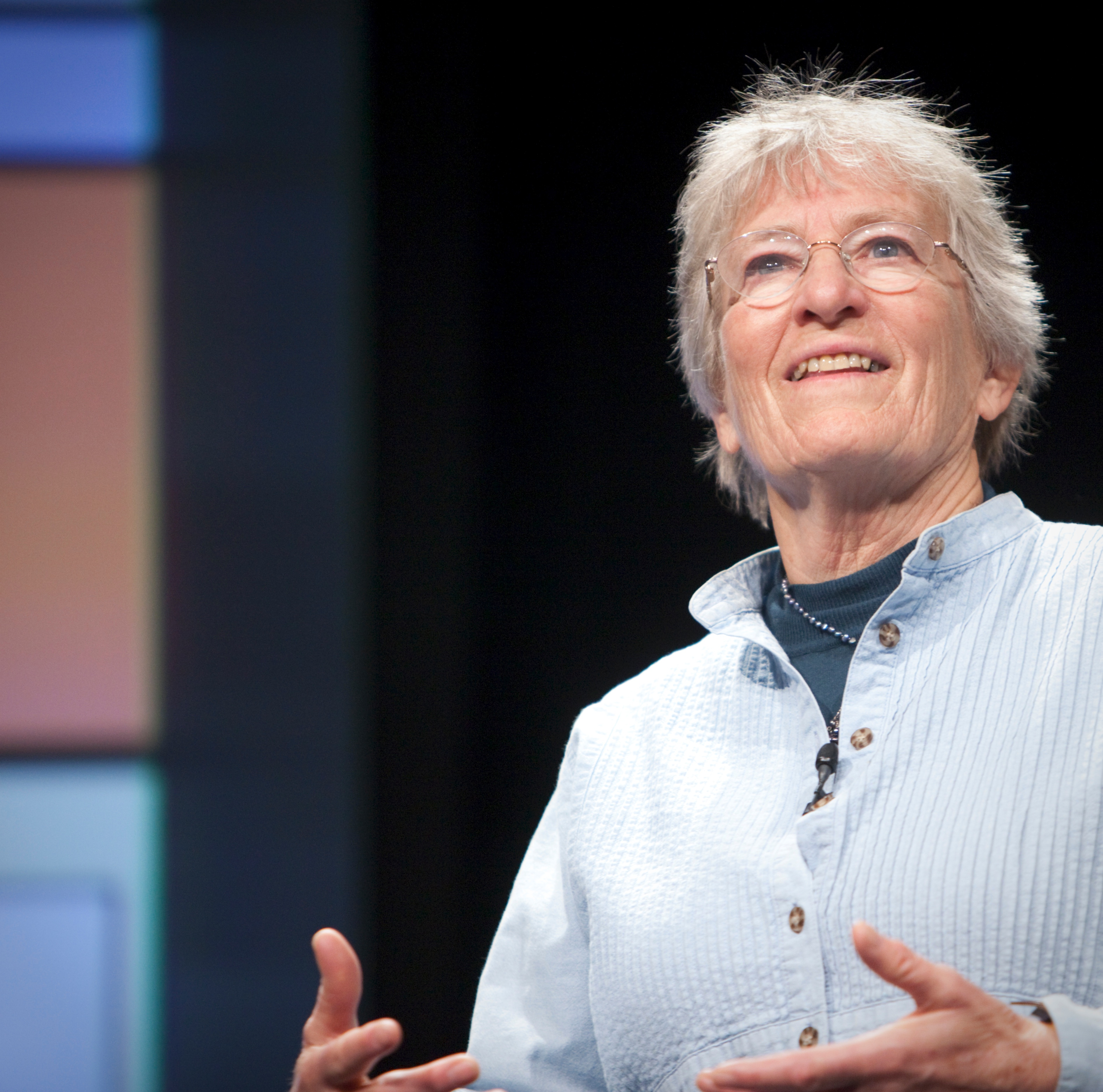 photo by Kris Krüg